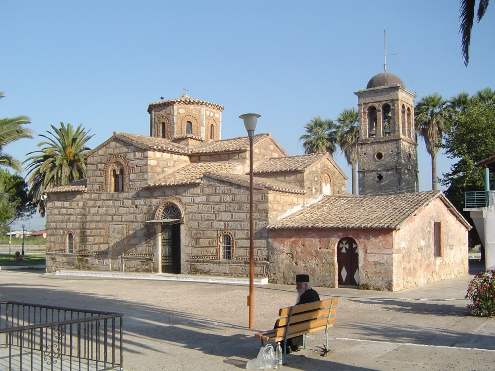 Kirche Kinisis Theotokou in Gastouni, GR